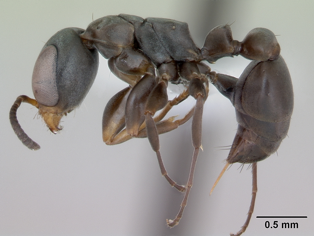 Profile view of ant Pseudomyrmex lisus specimen casent0173765.